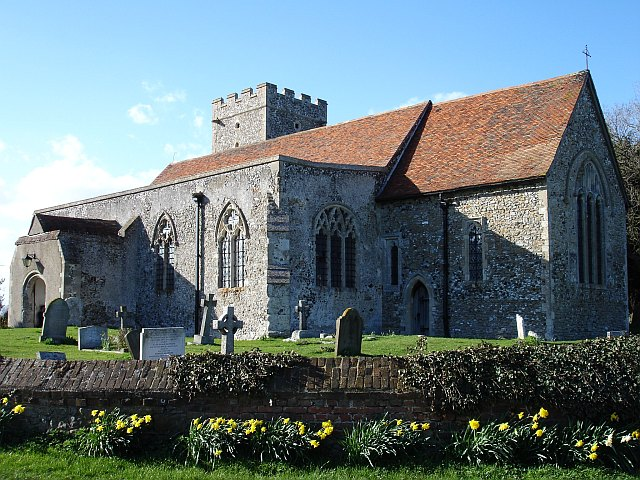 All Saints church, Graveney. The church stands next to a large farm and its associated cottages, the rest of this small community, including the primary school is about 200 metres down the road to the south. The whole community is surrounded by marsh, no longer tidal since the sea wall was built in 1325. The church stands about 12 metres above sea level and the land rises to the south and west.